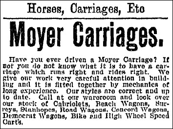 Moyer Carriages